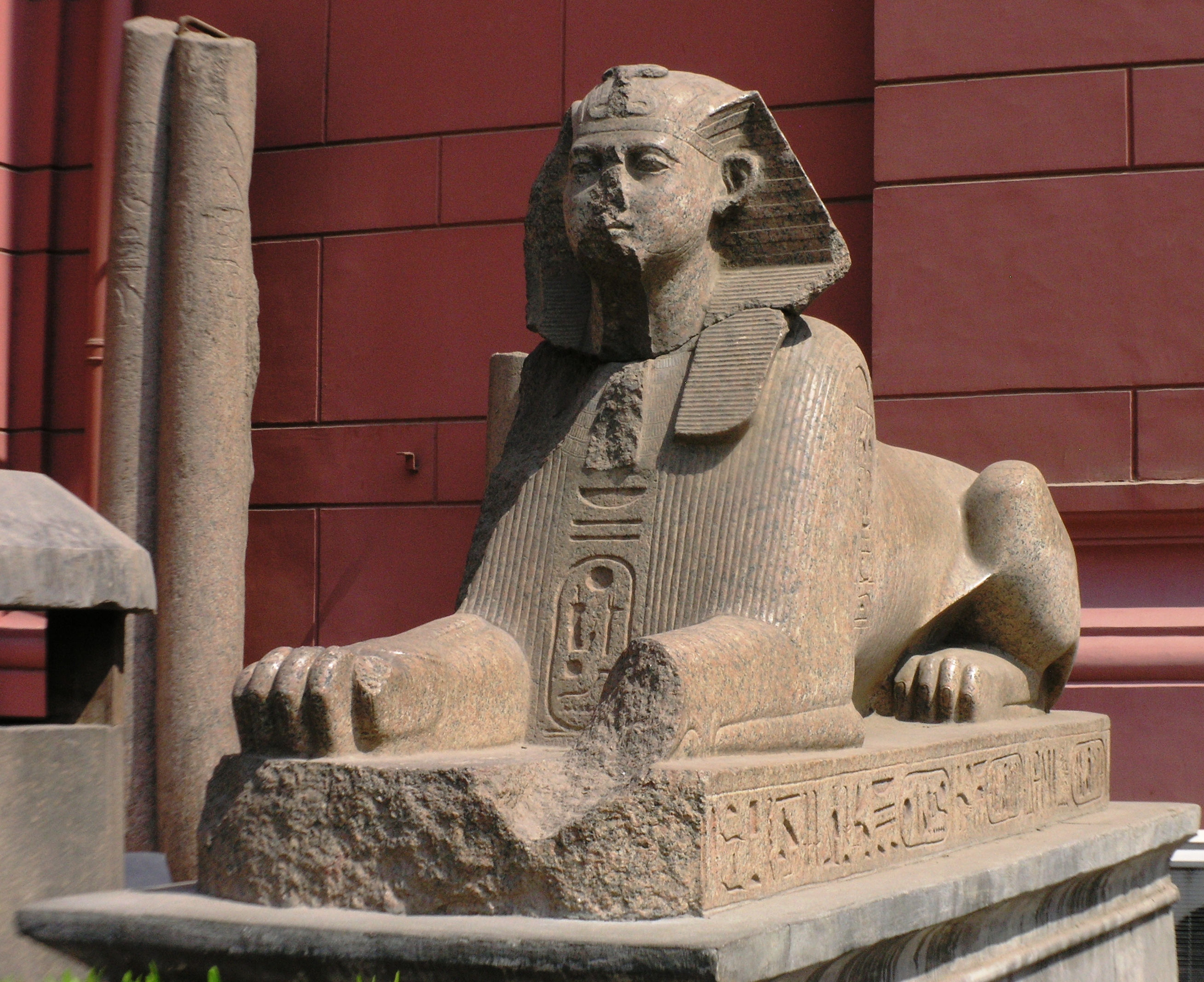 Egyptian Museum - Sphinx